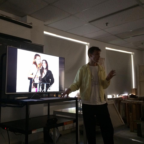 Artist Ed Fornieles presenting his work at Dawson College in Montreal, Canada